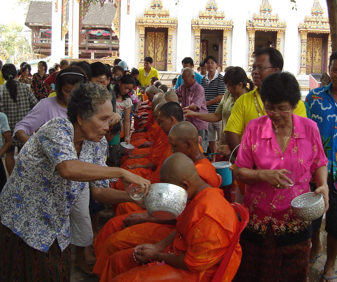 Songkran in Wat Kungtaphao Buddhist School in Wat Kungtaphao, Khung Taphao subdistrict, Mueang Uttaradit, Uttaradit Province, Thailand.